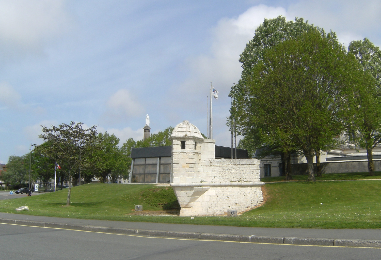 Echauguette à Rochefort